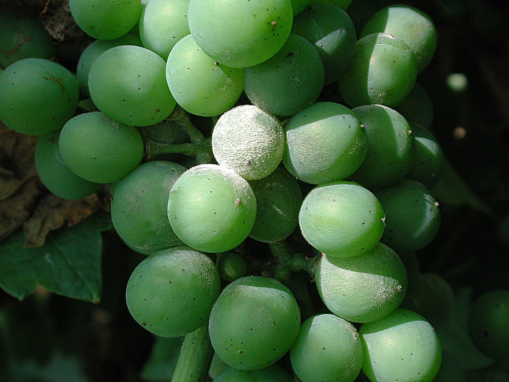 Floury, white fungal coating (mycelium) of the berries through the development of the powdery mildew fungus of the vine.